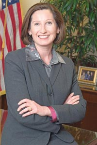 Picture of US Attorney Mary Beth Buchanan